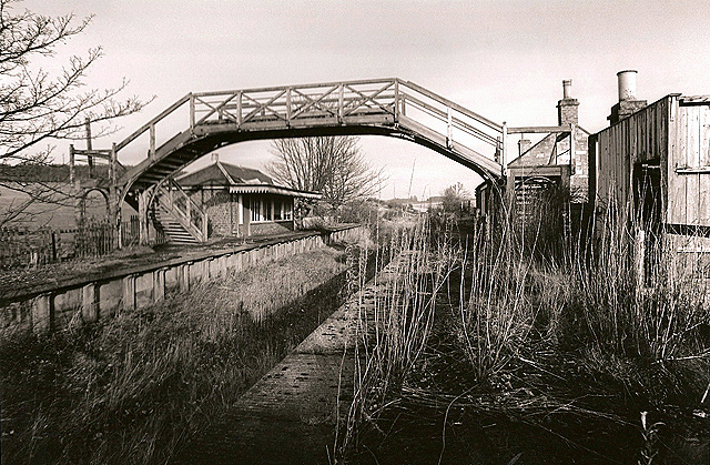 Hassendean Station - "This is a scan from a black and white photo I developed and printed in 1991. The station was on the Edinburgh to Carlisle Waverley Route one mile south of Minto Kames and four miles northeast of Hawick. The Waverley Line was closed in 1969 but the station buildings have been restored and converted into a dwelling house and architectural practice office. The footbridge has also survived and the former waiting room on the left beyond the bridge is now the architectural practice office. I had the pleasure of talking to the owner in this office at an open day on 28th August 2010. For a view of the footbridge taken on the open day," - Walter Baxter on Geograph